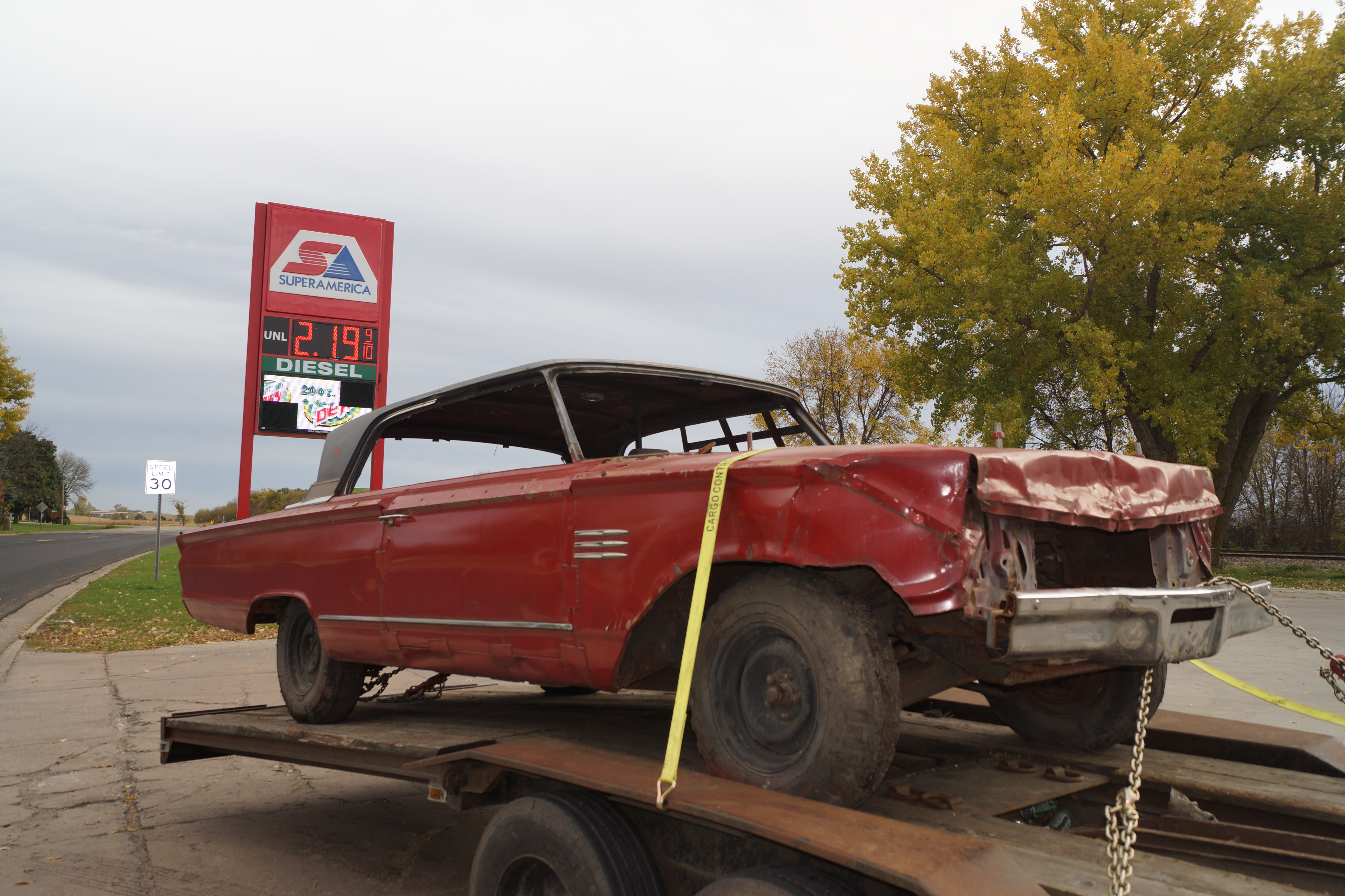 Click here for more car pictures at my Flickr site. Or here for my Car Crazy Tumblr site.